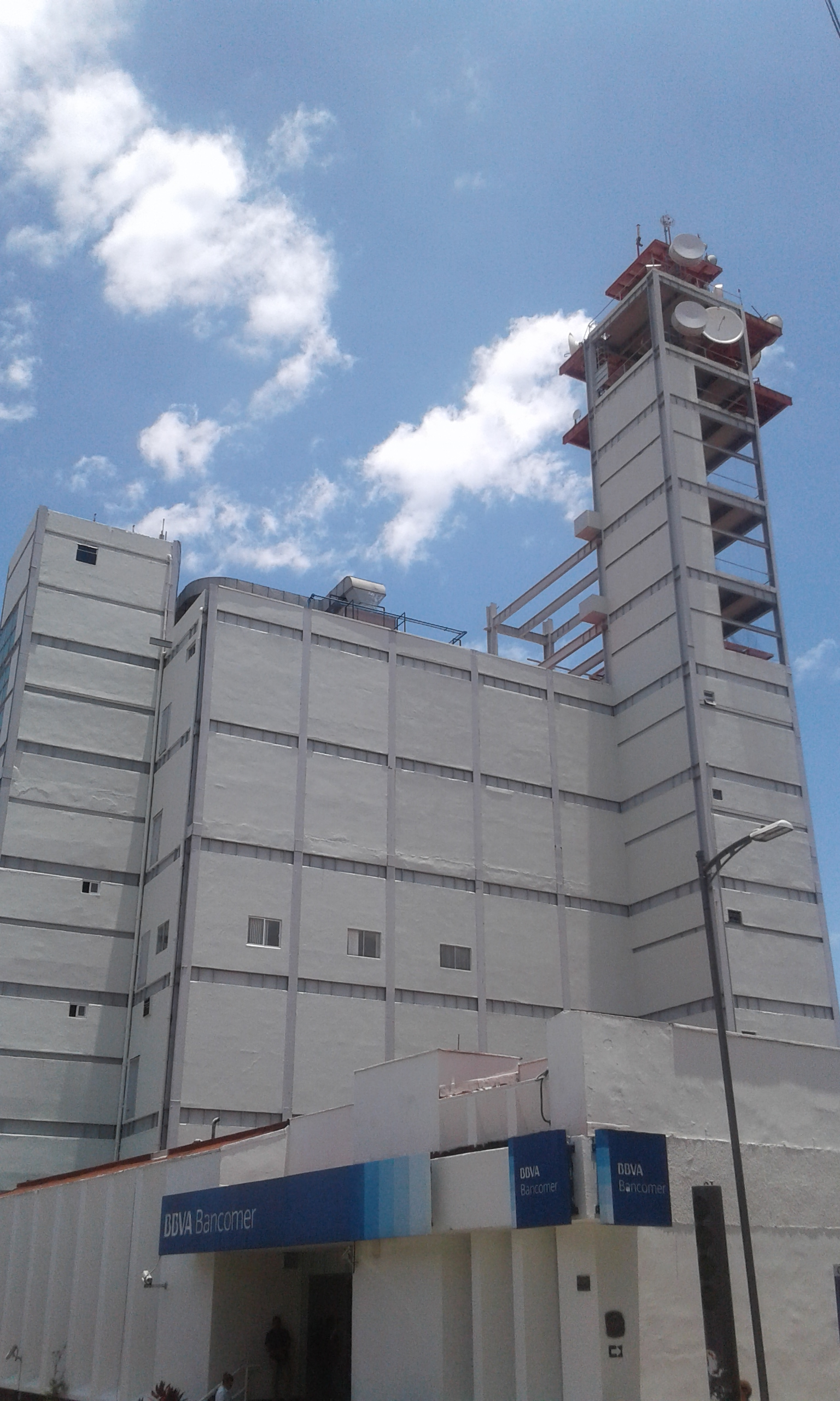 building used by telmex